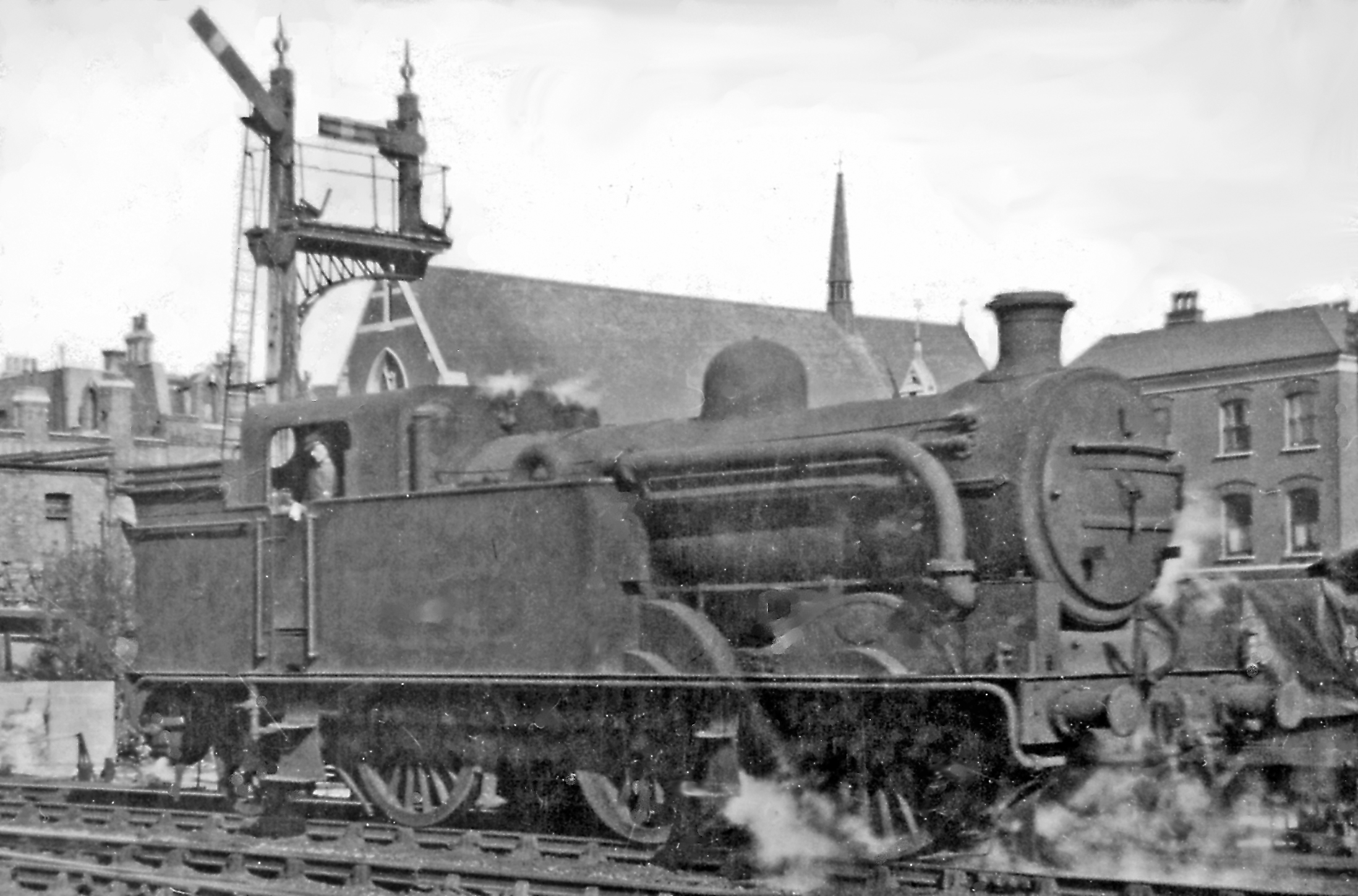 Ex-GN Ivatt 0-6-2T at Harringay. The great majority of these class N1 0-6-2Ts were fitted with condensing gear and worked in the London area, from King's Cross and Hornsey Depots on empty coach trains and on the countless cross-London exchange freight trains. Seen from the station at Harringay ('West' 6/51-5/71), No. 4583 was built 11/1911 as GN No. 1583, became LNER No. 4583 then in 1946 No. 9463 and survived as BR No. 69463 until 3/55. (Strangely, the prominent church behind seems to be no longer there).